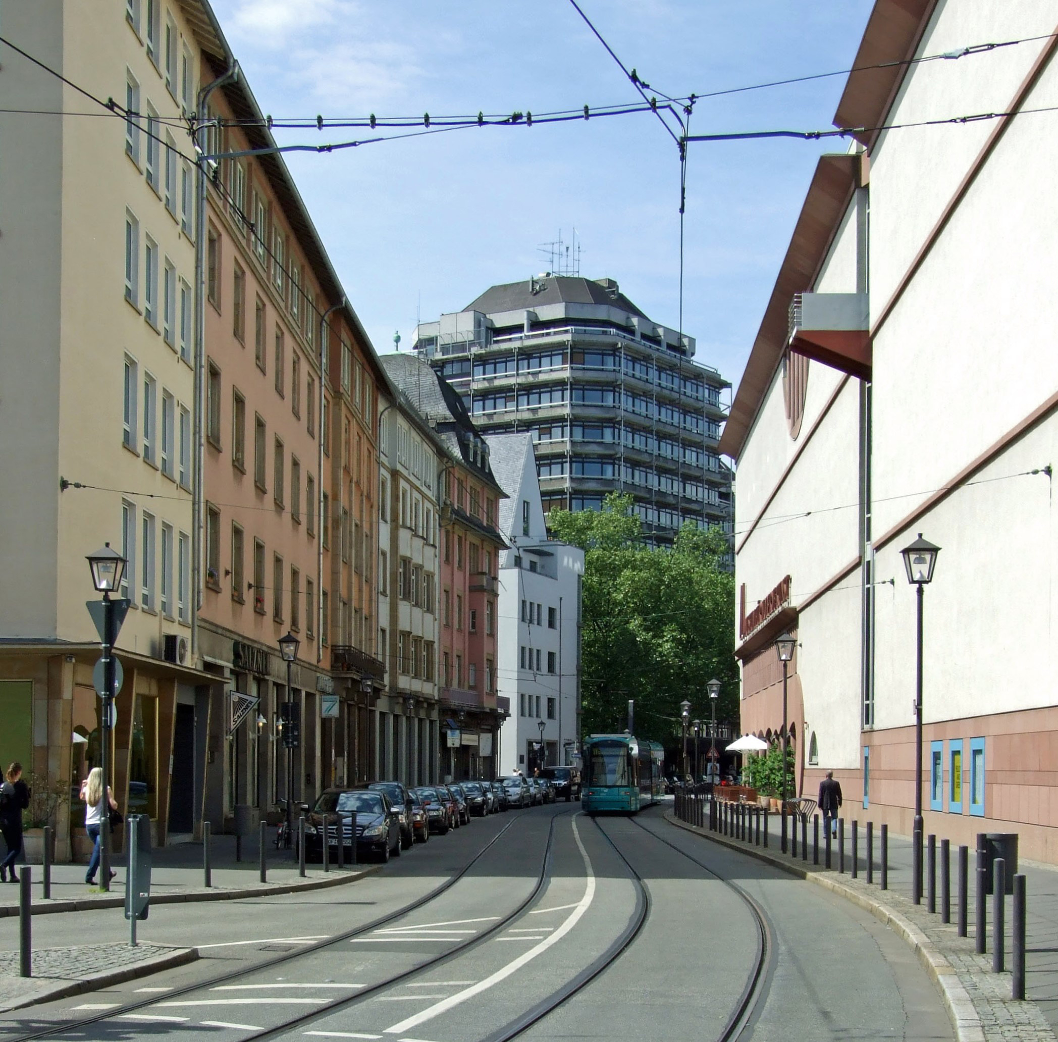 Beginning of "Braubachstrasse" on backside of "MMK" at intersection "Fahrgasse", in Frankfurt am Main-Altstadt